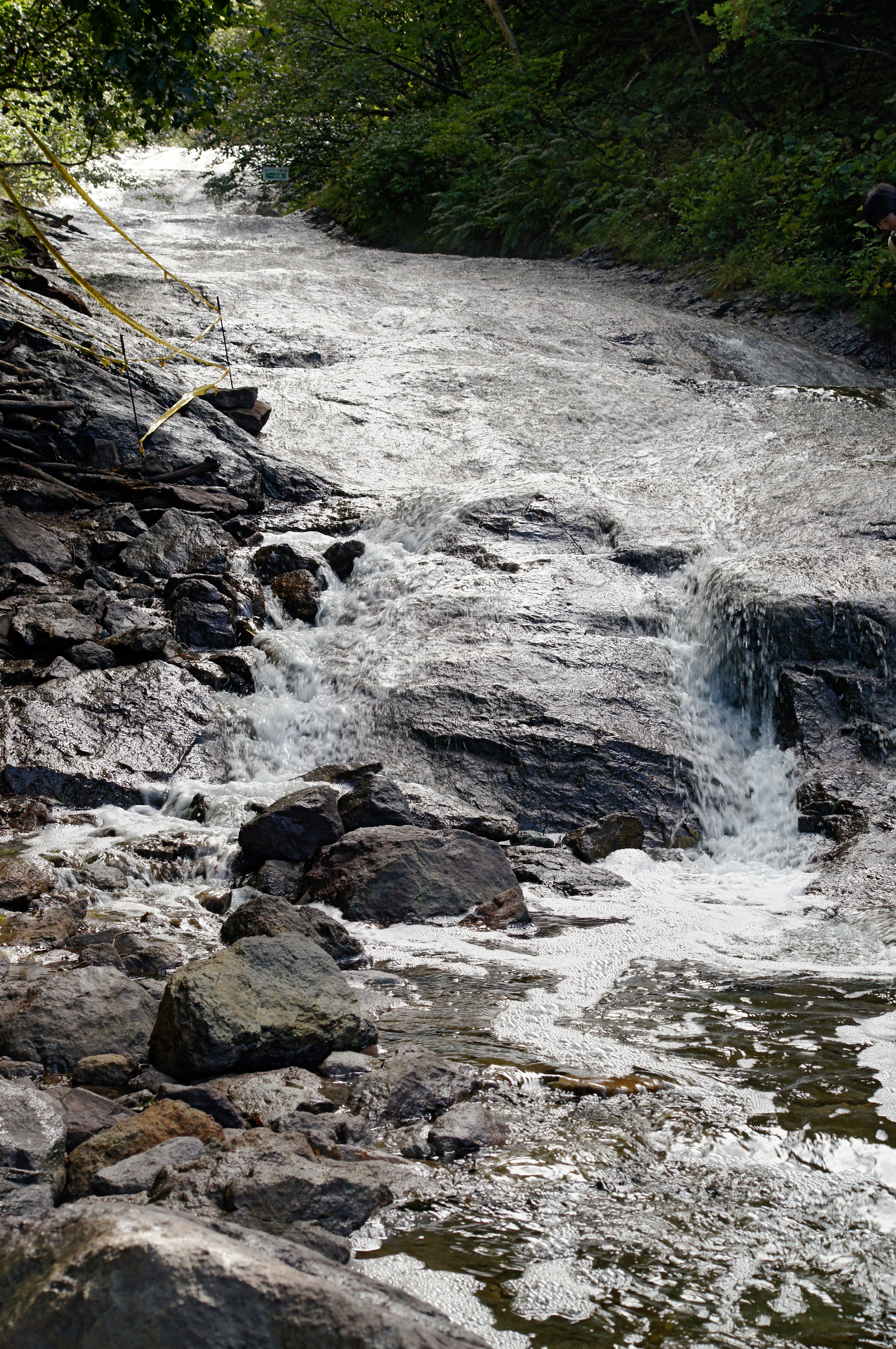 Kamuiwakka_Falls in Shari, Hokkaido prefecture, Japan